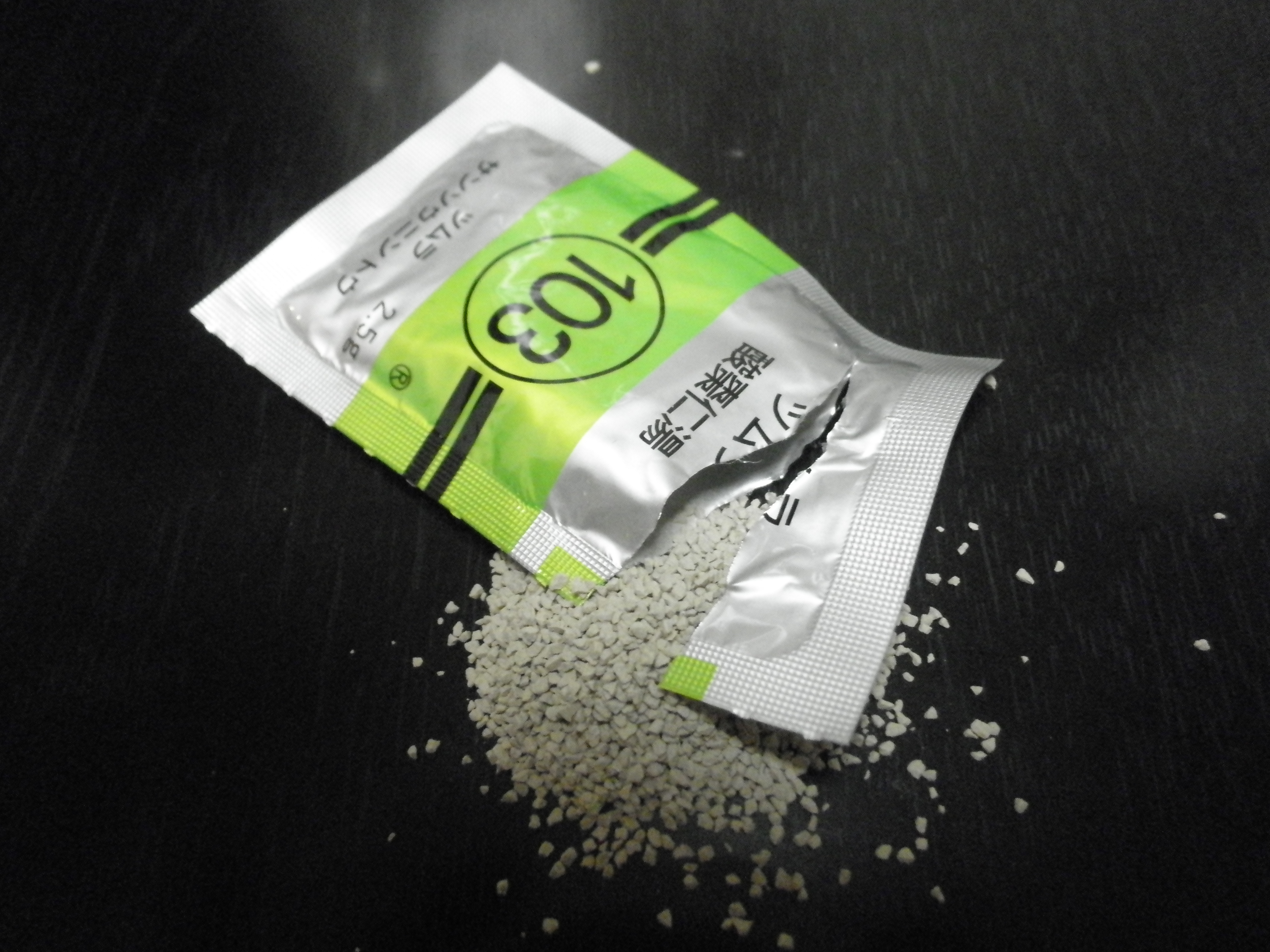 Chinese medicine whose name is Sansounintou